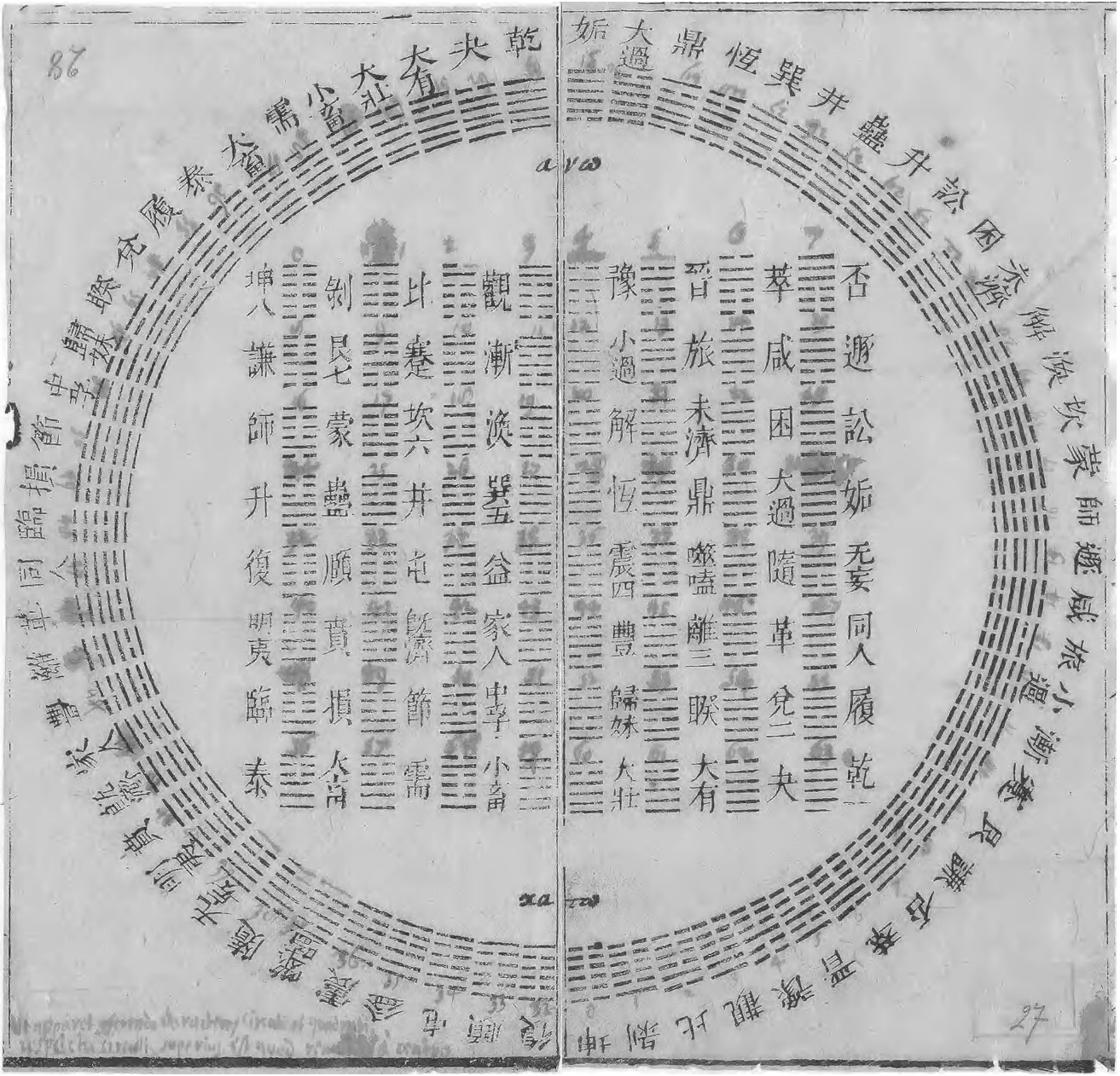 A diagram of I Ching hexagrams owned by German mathematician and philosopher Gottfried Wilhelm Leibniz. It was sent to Leibniz from the French Jesuit Joachim Bouvet. The Arabic numerals written on the diagram were added by Leibniz. The grid in the center presents the hexagrams in Fuxi or binary sequence, reading across and down. The same order is used on the outside, reading up from the bottom around on the right, then up again on the left to the top.